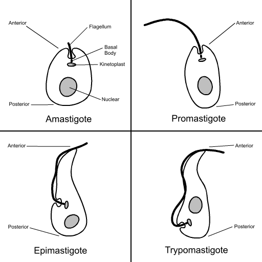 Trypanosomatid cellular forms. By Richard Wheeler (Zephyris) 2006.